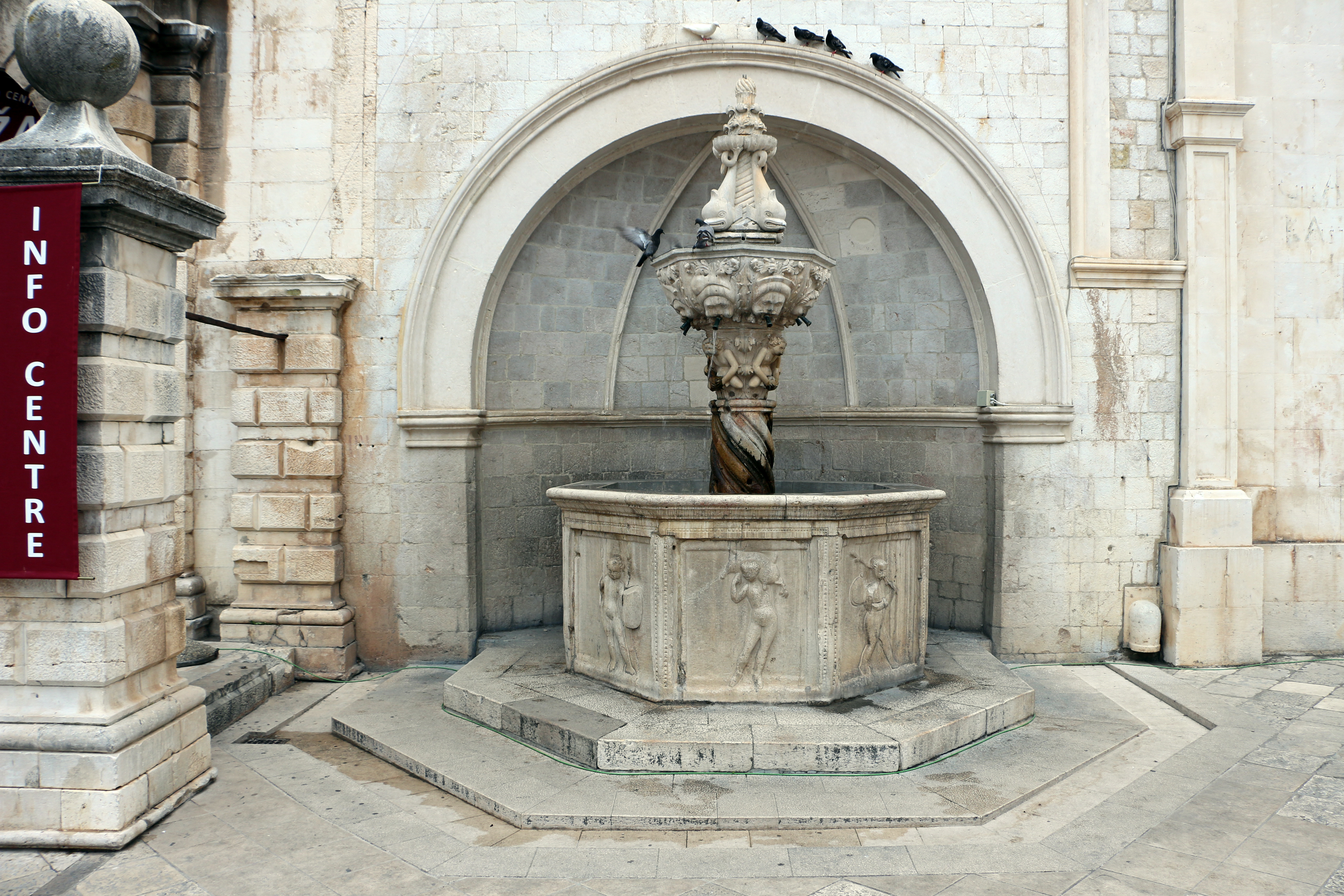 Fountains in Dubrovnik